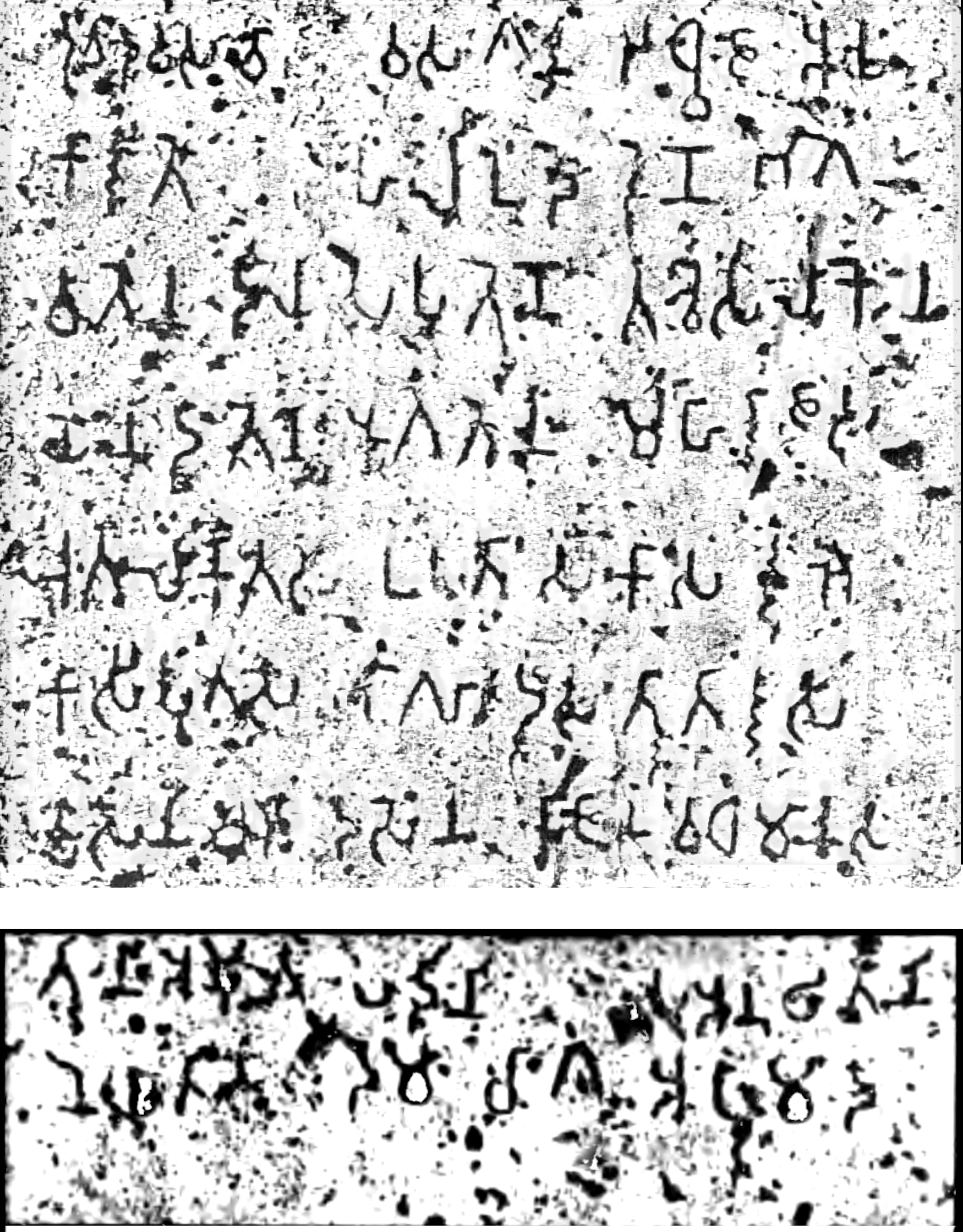 Heliodorus pillar Rapson rubbing inverted